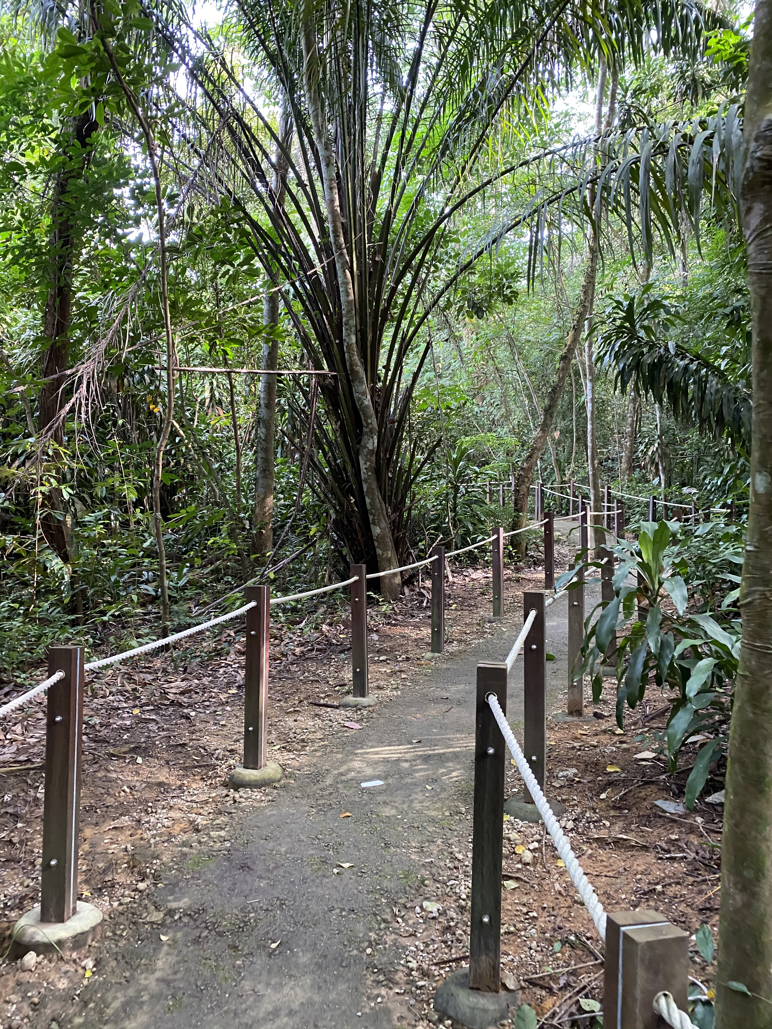 A hiking trail in Thomson Nature Park, Singapore captured in the afternoon of August 2, 2020